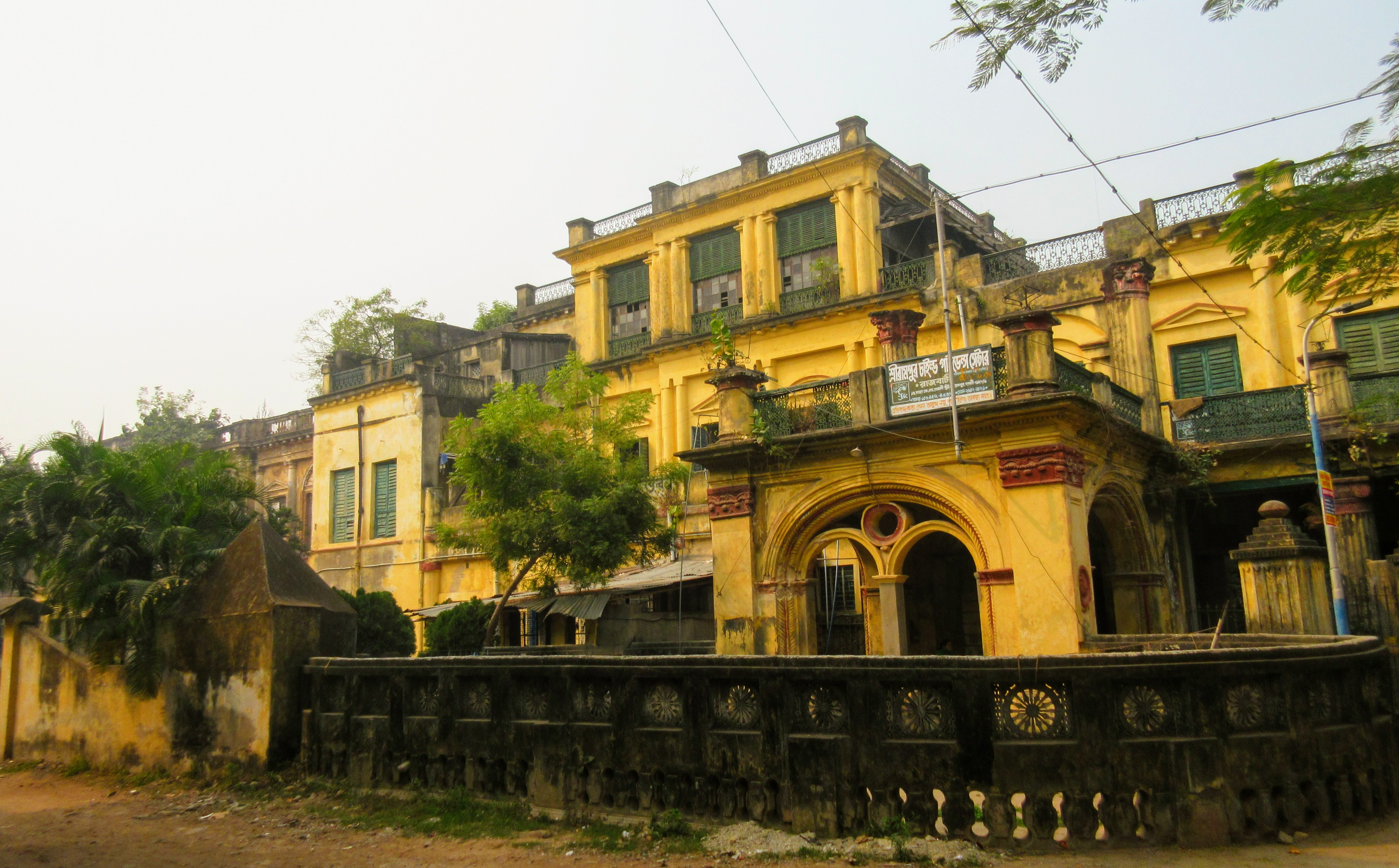 Between 1815 and 1820, during or shortly after the construction of Serampore College, Raghuram Goswami left his original property in Goswamipara to build a house for himself and his children and it was thus that the giant mansion known today to locals as “Serampore Rajbari” came into existence.